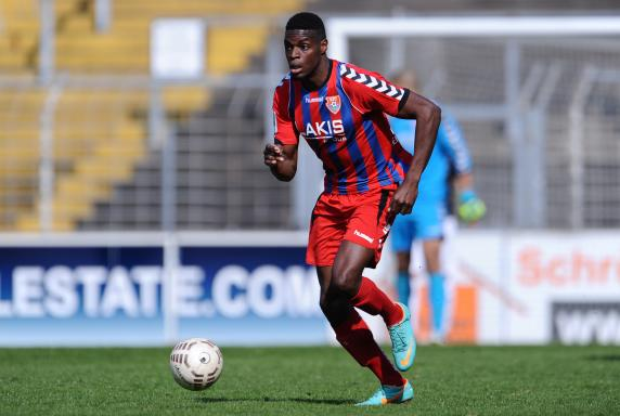 Kofi Schulz for KFC Uerdingen 05